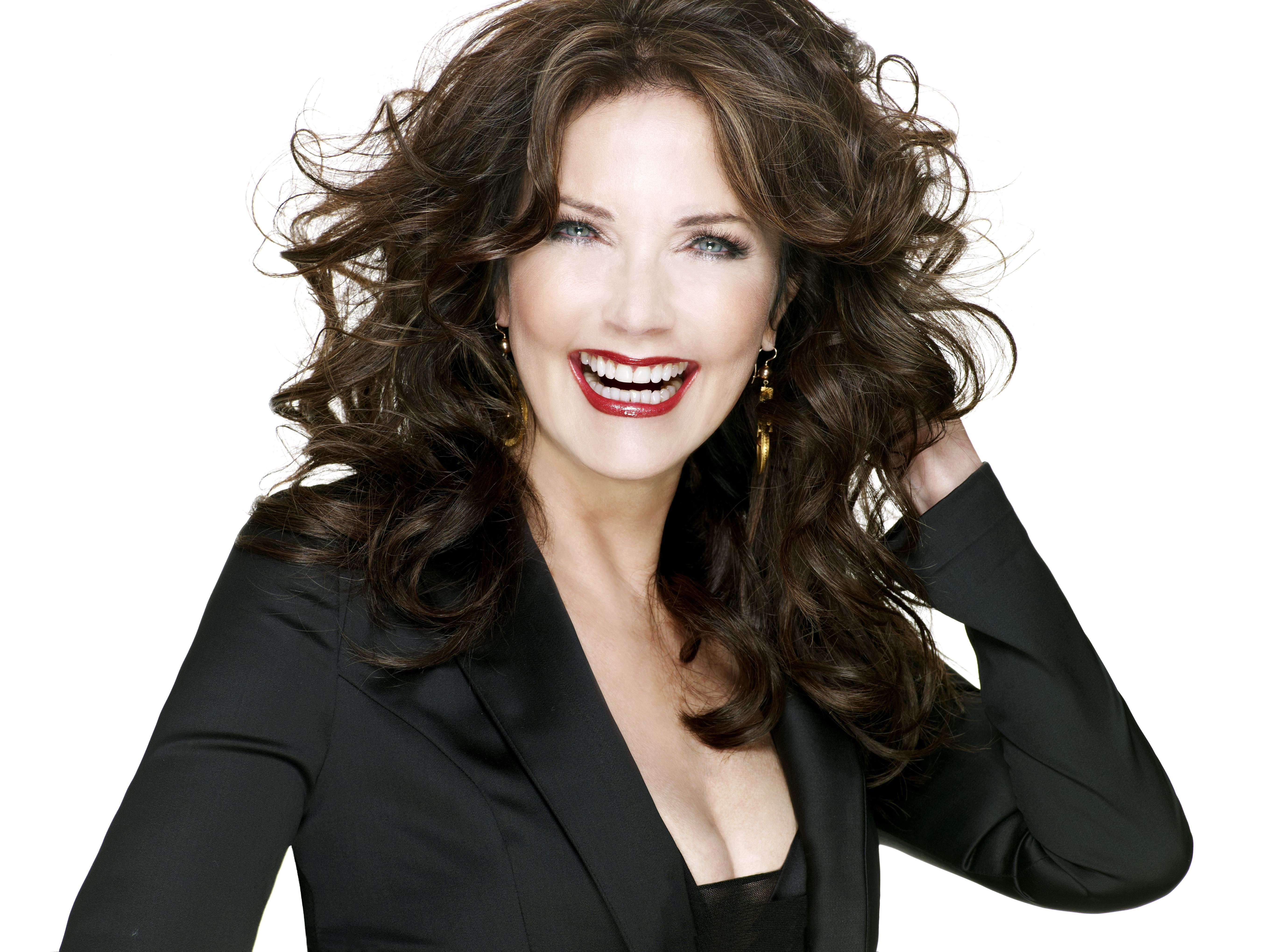 Photograph of Lynda Carter from JS² Communications.